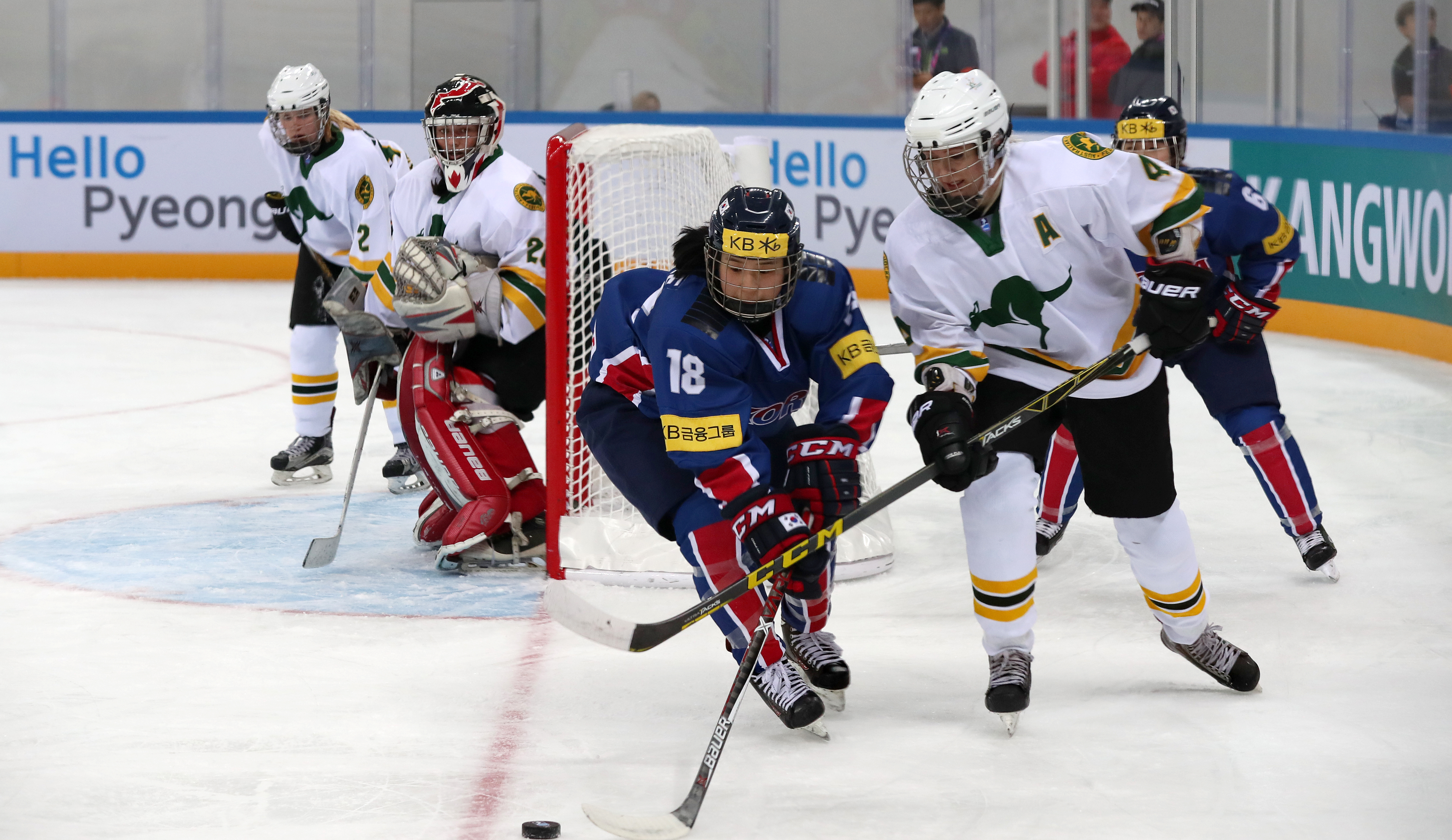 IIHF Ice Hockey Women’s World Championship DIVⅡ Group AKorea vs AustraliaApril 5, 2017Kwandong Hockey Center, Gangneung-si, Gangwon-do